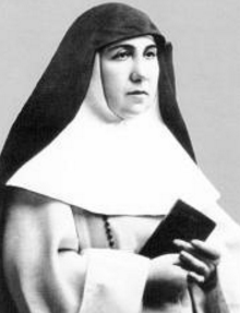 Ascensión Nicol y Goñi (1868-1940), Spanish Roman Catholic Religious Sister of the Third Order of St. Dominic, co-foundress and first Prioress General of the Congregation of Dominican Missionary Sisters of the Rosary; beatified